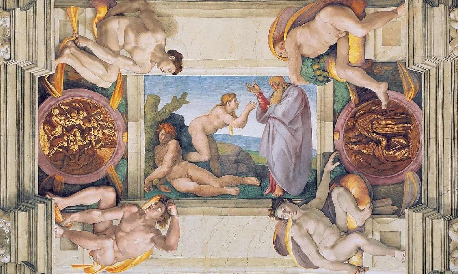 Sistine chapel ceiling.